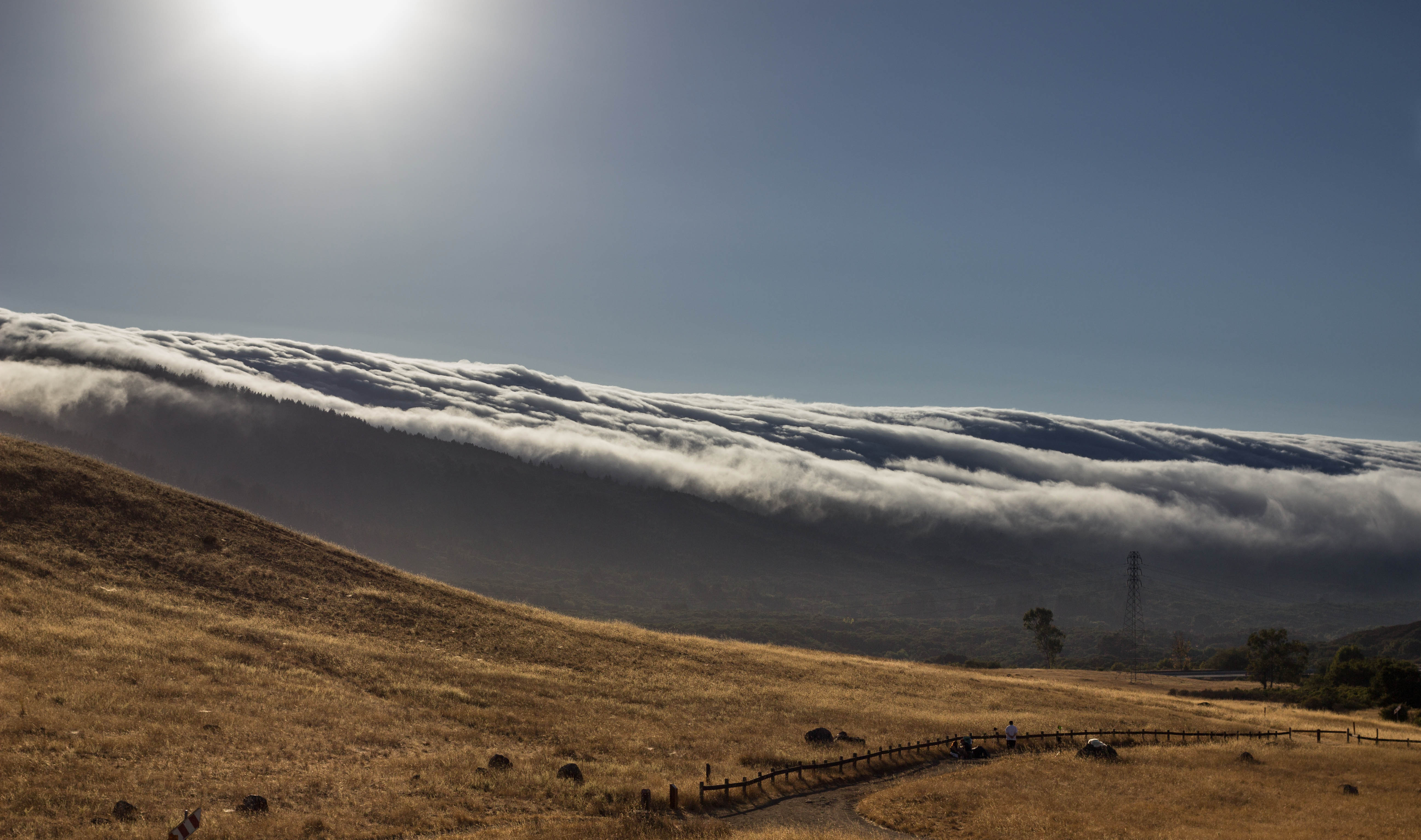 I still haven't figured out the magic formula to this place. It never looks nearly as good in the pictures as it does in real life. This is best viewed in the largest size possible. Edgewood County Park San Mateo County, CA